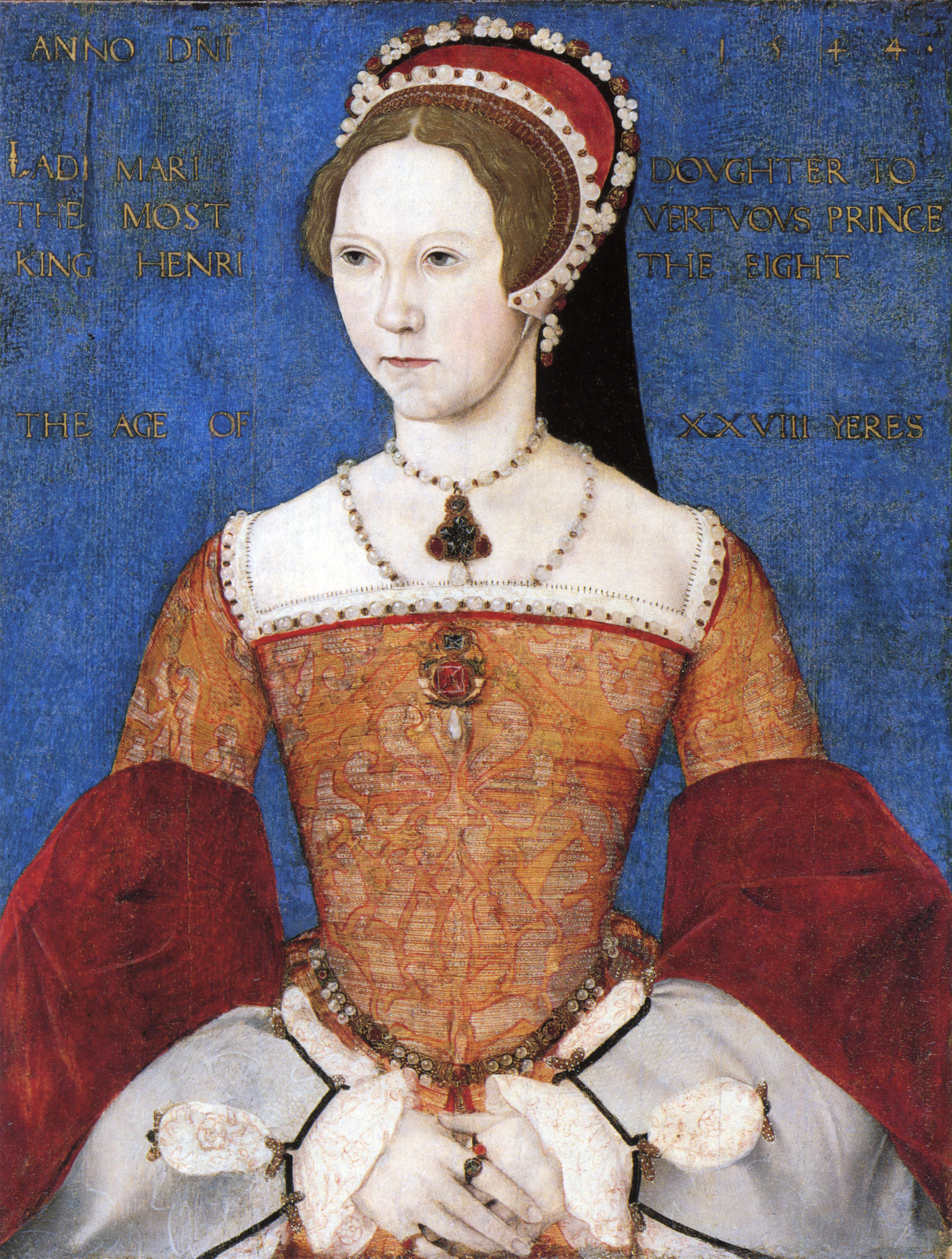 This PNG image has a thumbnail version at File: Mary I by Master John.jpg. Generally, the thumbnail version should be used when displaying the file from Commons, in order to reduce the file size of thumbnail images. Any edits to the image should be based on this PNG version in order to prevent generational loss, and both versions should be updated. See here for more information.